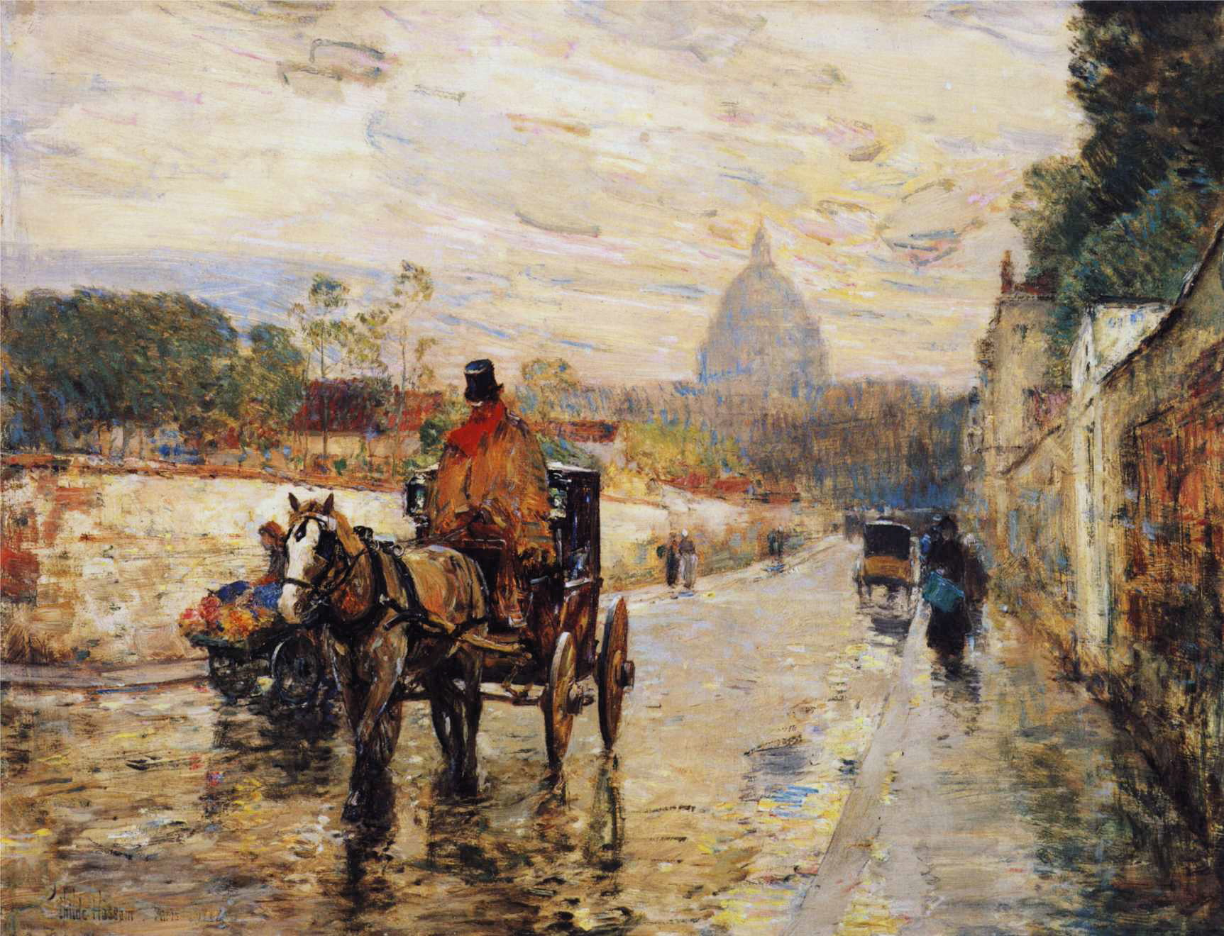 Le Val-de-Grâce, Spring Morning